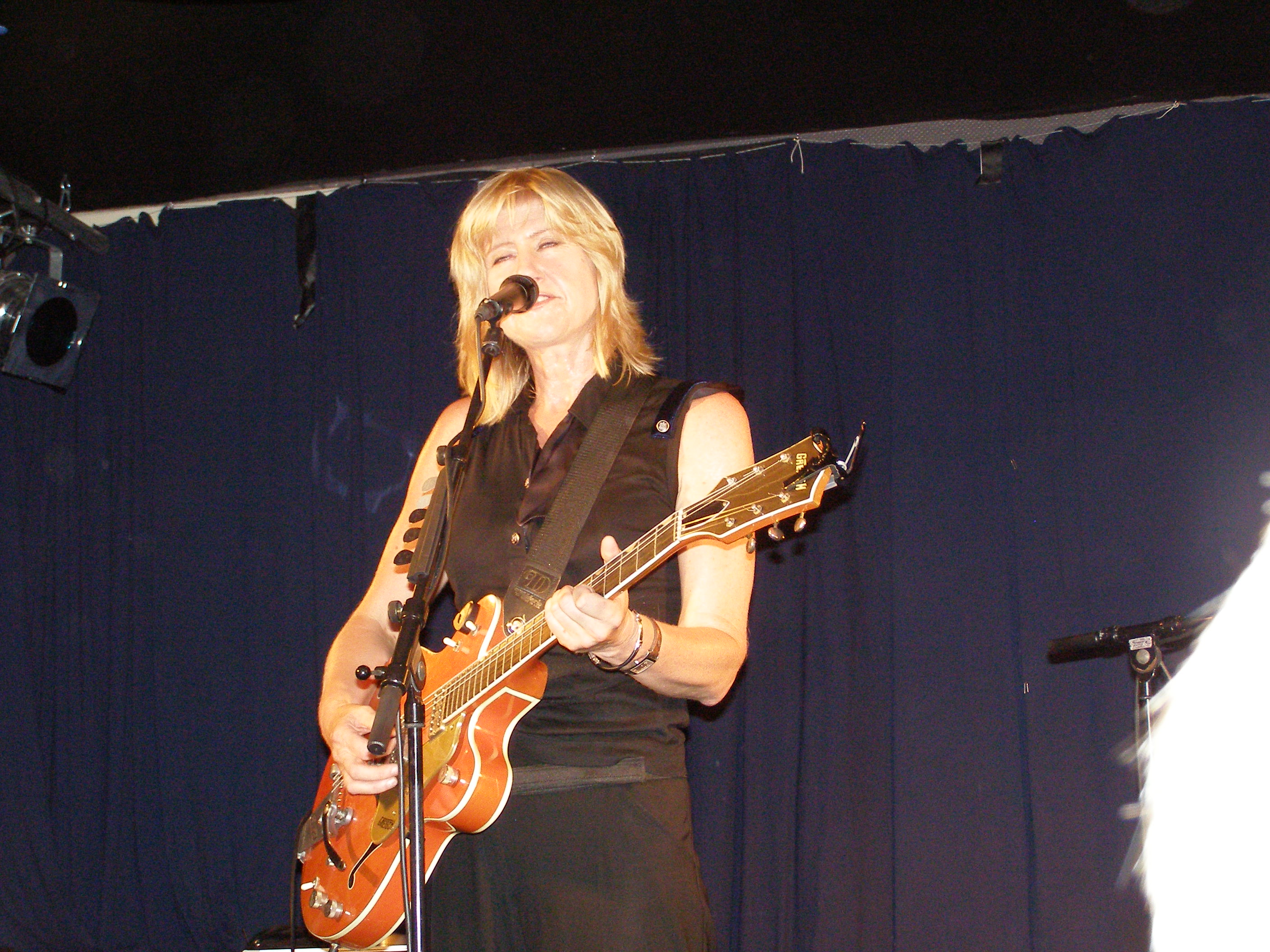 Norwegian singer Anne Grete Preus